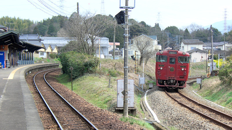 Kumagawa Railroad Sagarahan Ganjoji Station platform, view towards Yunomae. JR Kyushu Hisatsu Line runs on the right. Taken on 14 March 2007